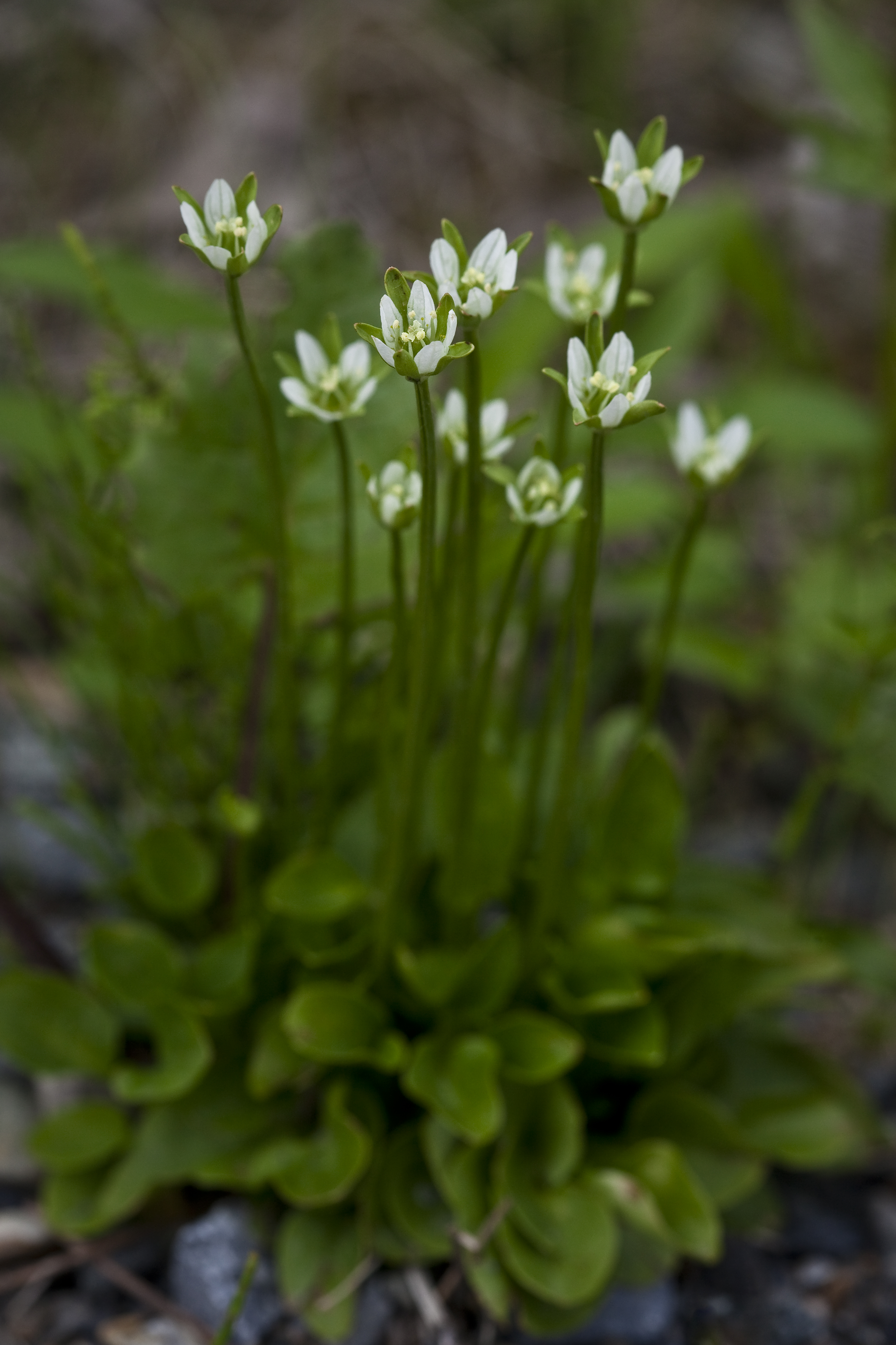 Parnassia kotzebuei by Jacob W. Frank